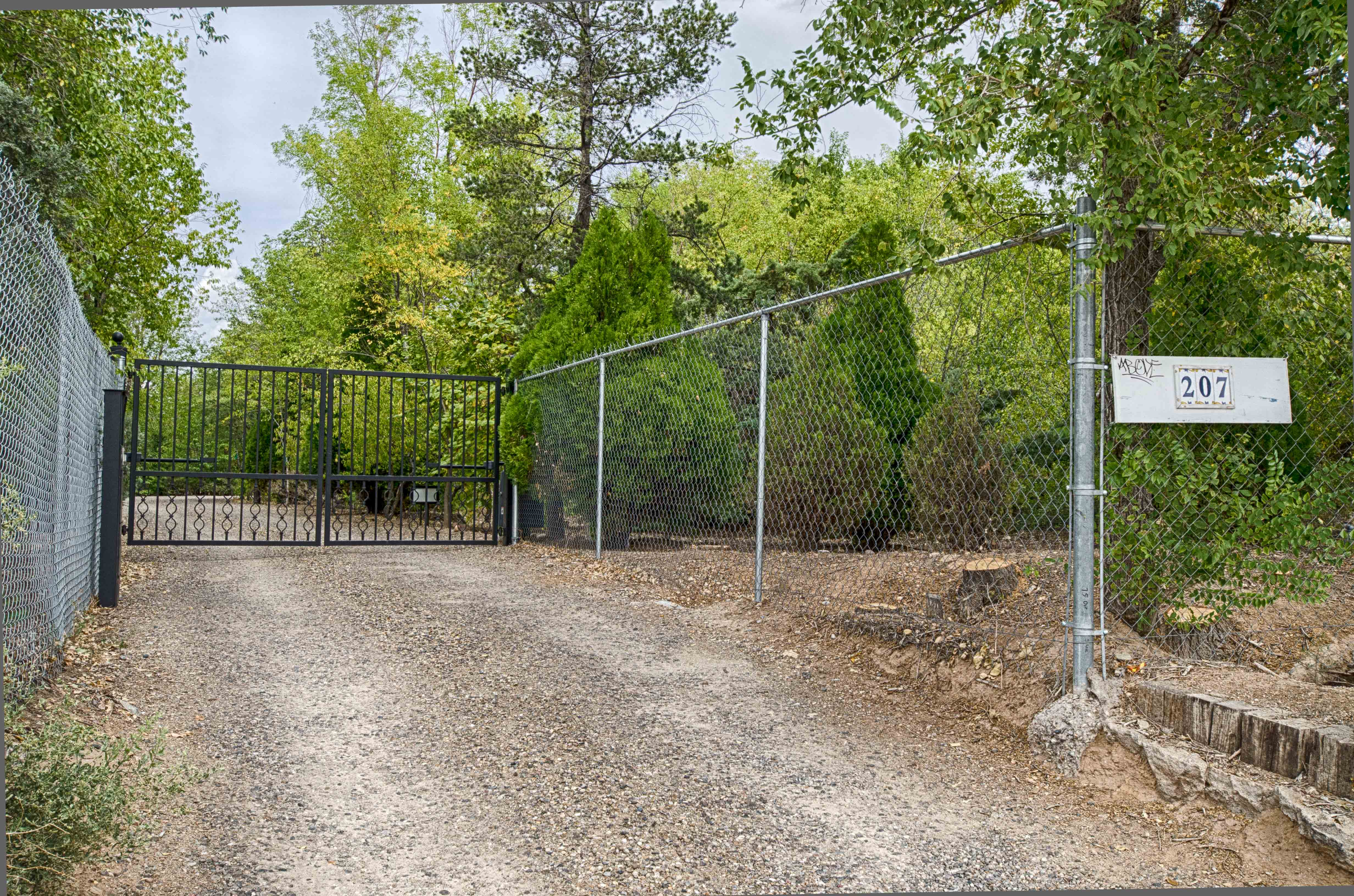 This structure is completely obscured from the street by a forest of trees. It stands in the northwest corner of Edith and Griegos in Albuquerque's north valley.